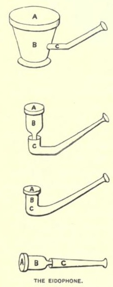 Diagram of Eidophones - Megan Watts Hughes created pictures using these eidophones which allowed the resonance of sound to be visualised. These are from a VISIBLE SOUND -- VOICE-FIGURES by Margaret Watts Hughes [Century Magazine 42, 37 (1891). The phenomona was demonstrated to the Royal Society